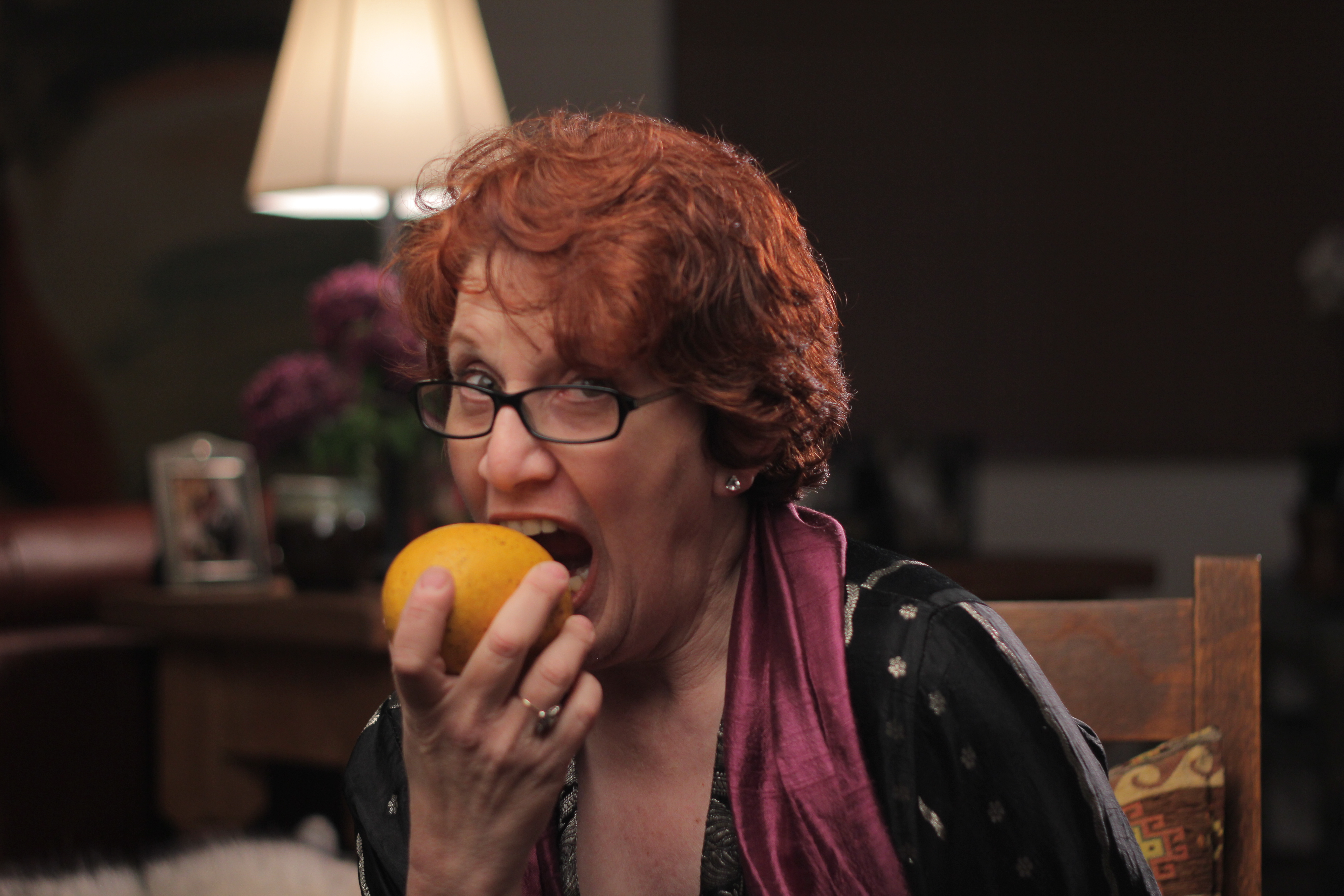 Depicts Kathy Gori biting a mango.